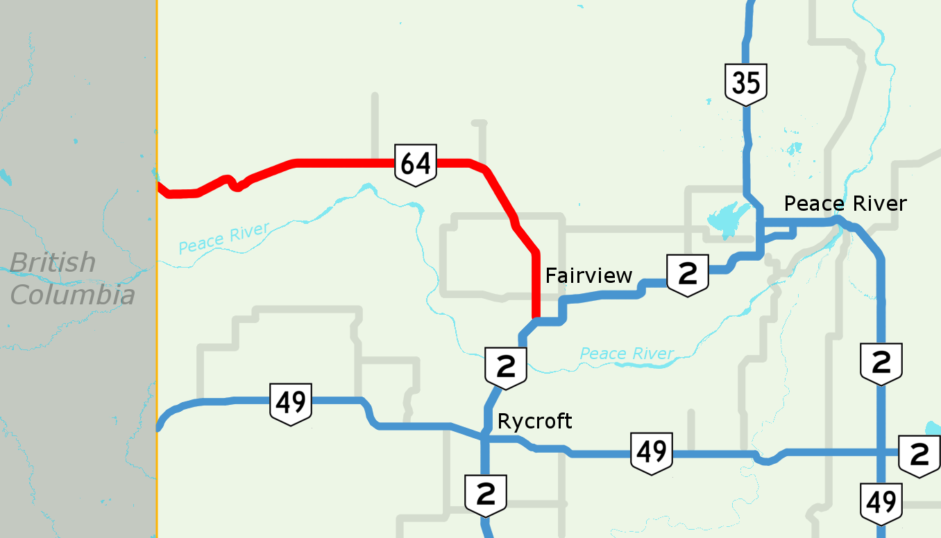 Alignment of Highway 64 in northern Alberta.